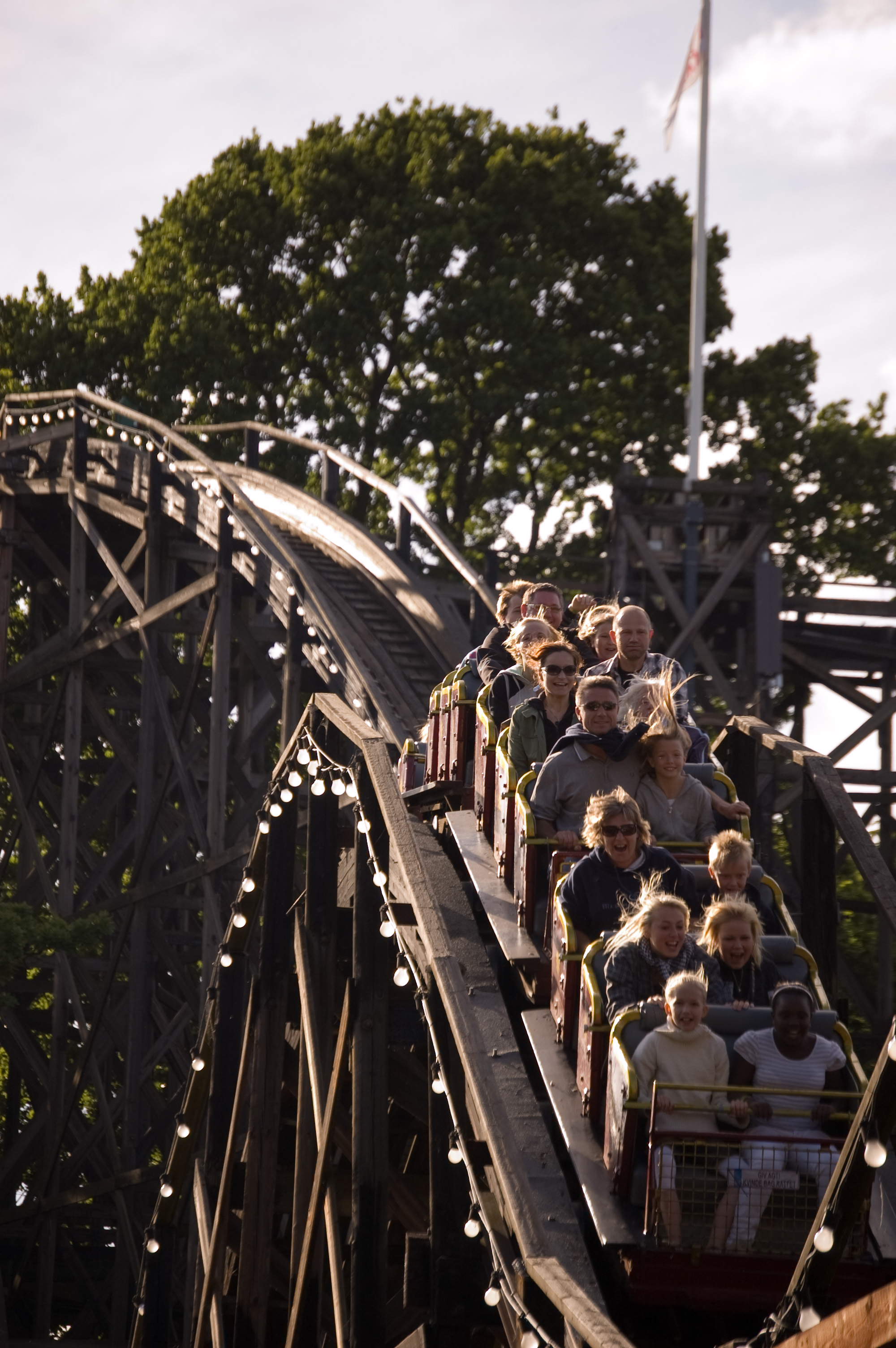 Rollercoaster #1 @ Bakken, Copenhagen